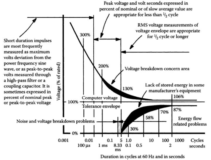 Power acceptability curve by CBEMA.